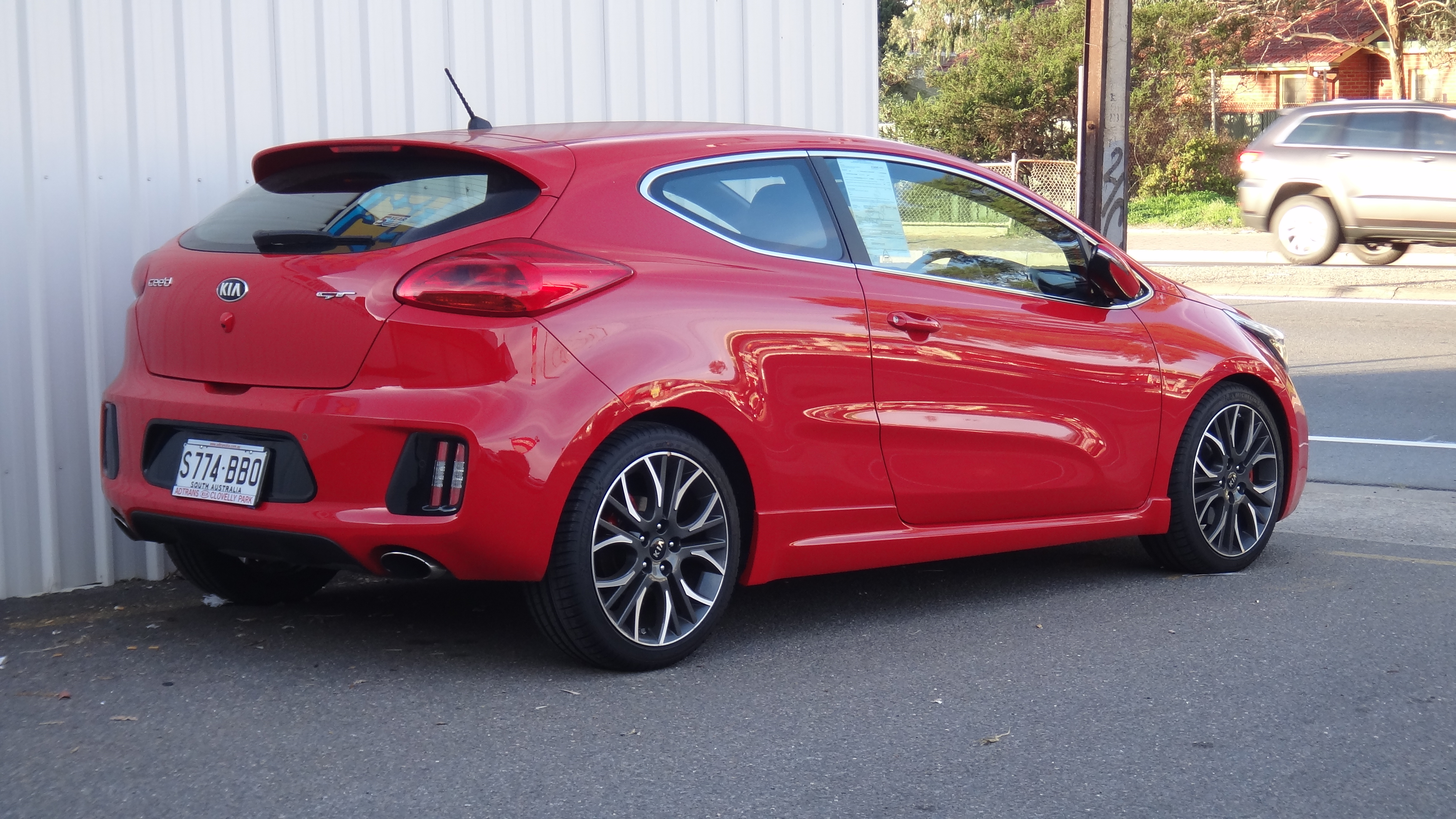 This is Kia's 'Halo' car in Australia and is the only model from the Euro Cee'd line up to be released in Australia. The second Euro Cee'd model that is reportedly on it's way to our market, is the Kia Cee'd SW wagon. The 5dr hatch, 2dr sedan/coupe (Kia Cerato Koupe) and 4dr sedan roles are filled by the Kia Cerato (Kia Forte in other markets).